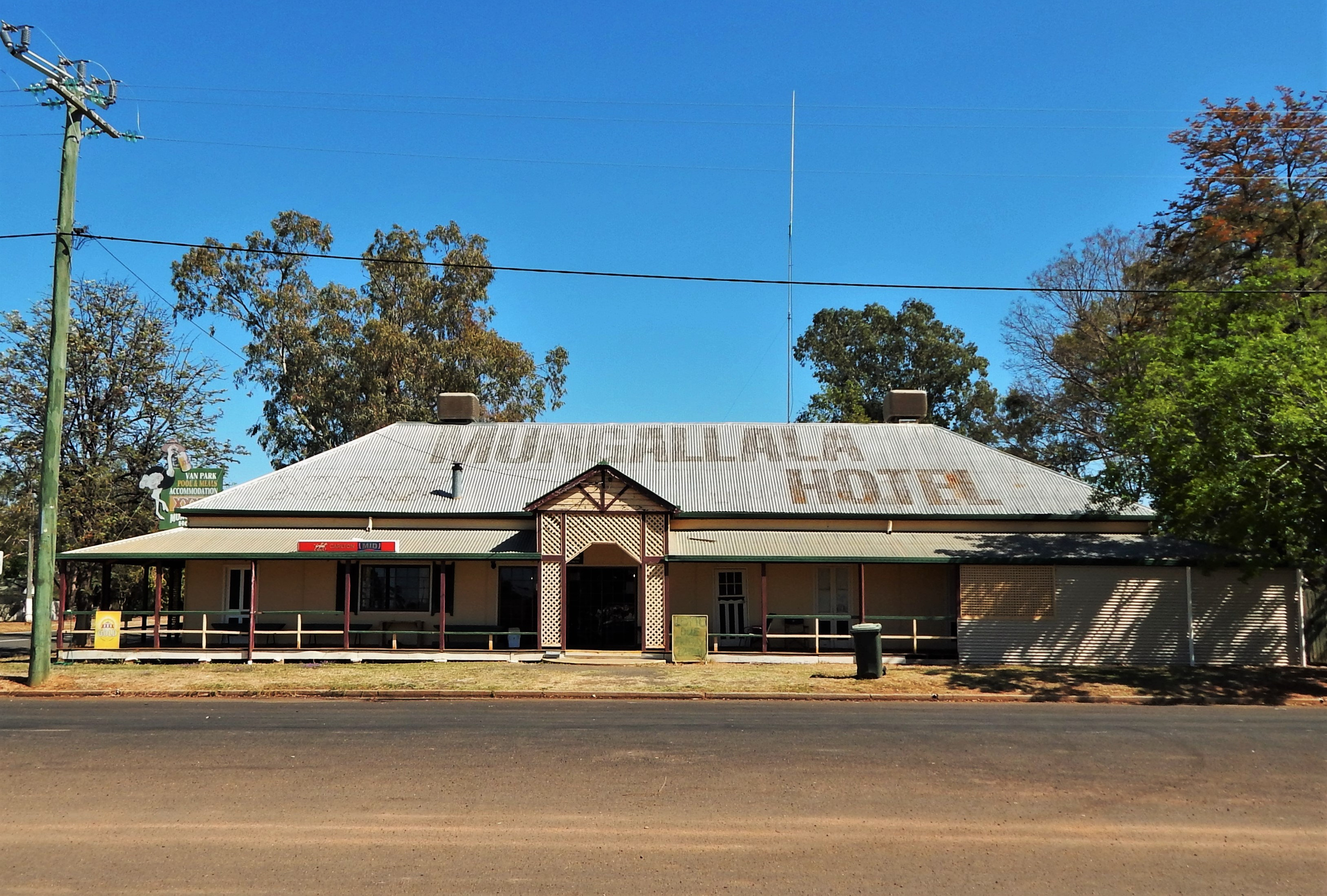 The hotel in Mungallala, Queensland